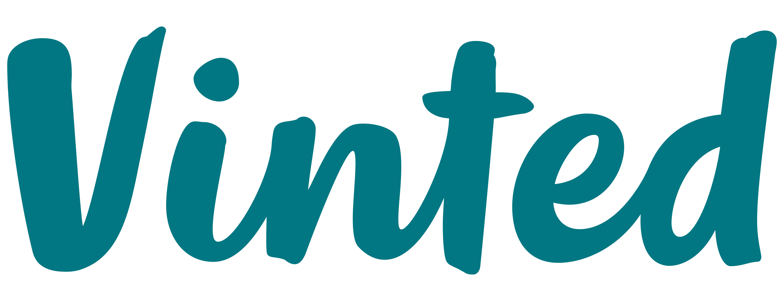 Vinted logo